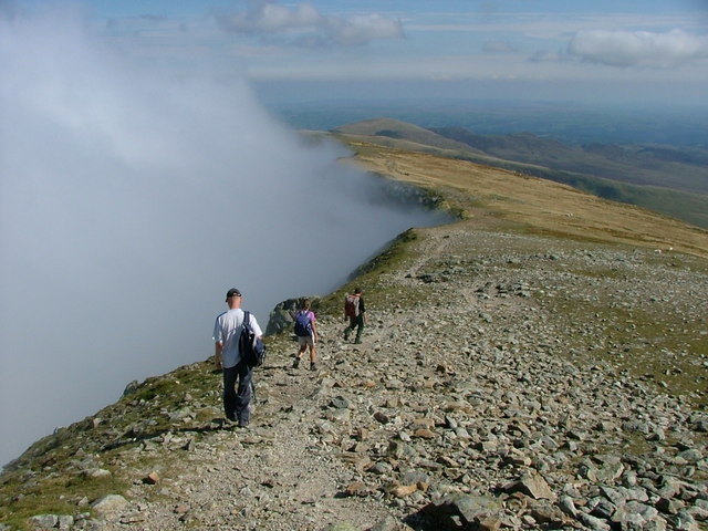 Cefn Ysgolion Duon.